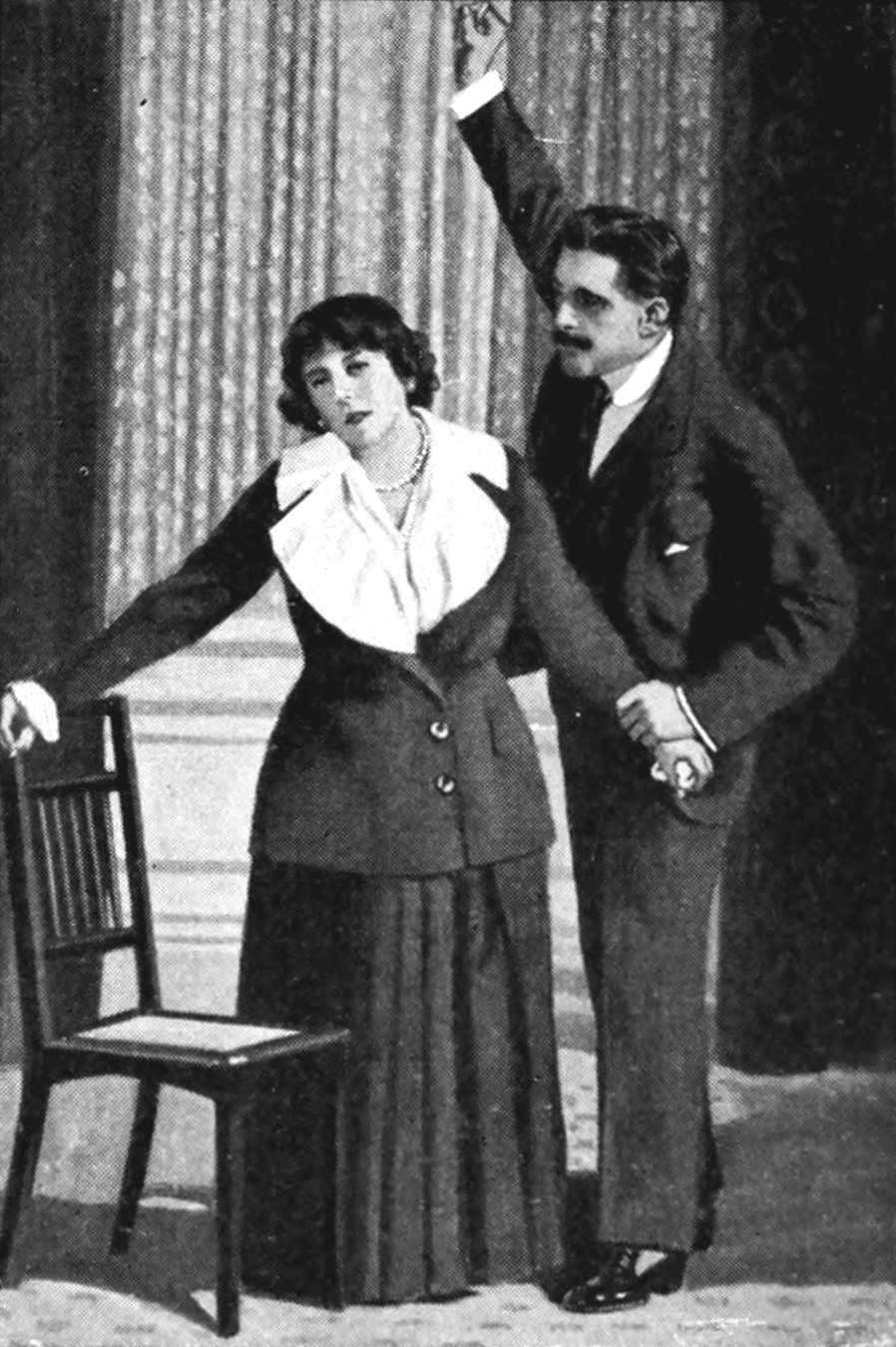 Leoncavallo - Zazà - Zaza and Dufresne - Photo Bert Title: The Victrola book of the opera : stories of one hundred and twenty operas with seven-hundred illustrations and descriptions of twelve-hundred Victor opera records Year: 1917 (1910s) Authors: Victor Talking Machine Company Rous, Samuel Holland Subjects: Operas Publisher: Camden, N.J. : Victor Talking Machine Co. Text Appearing Before Image: ZAZA OPERA IN FOUR ACTS Libretto adapted by the composer from a play by Simon and Berton; music by Ruggero Leoncavallo. First production in Milan, 1900. First American production at the Tivoli Opera House, San Francisco, November 27, 1903. Revived in November, 1913, at the New Tivoli, San Francisco, under the direction of Leoncavallo himself. singeriother Characters ZAZA A concert ha AN AIDE Her FLORIANA A concert hall singer NATALIE Zazas maid SIGNORA DUFRESNE His wife MILIO DUFRESNE A wealthy Parisian CASCART A concert hall singer BUZZY A journalist MALARDOT The proprietor of the concert cafe LARTIGNON A monologue artist DUCLOU Stage manager MICHELIN A journalist MARCO Valet of Signor Dufresne Singers, Dancers, Scene Shifters, Firemen, Property Men, etc. Time and Place: Paris; the present time. Text Appearing After Image: Zaza has had some success in London, Paris and Berlin, but has never been given in New York, although several Zaza excerpts were given at the Leoncavallo concerts in 1906, when the composer visited America. The story is quite familiar to American audiences, however, through the performances of the play of that name, which has been heard in many countries and many languages, and the musical version follows closely the original play. 552 VICTROLA BOOK OF THE OPERA—LEONCAVALLOS ZAZA